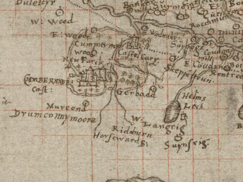 Ponts Map of Cumbernauld Castle